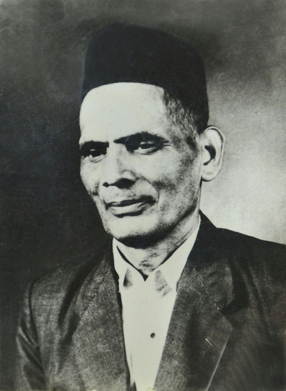 Vaidyartana G.A.Phadke